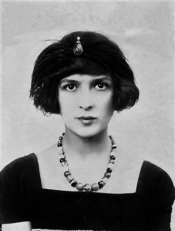 British actress Julia James in 1914